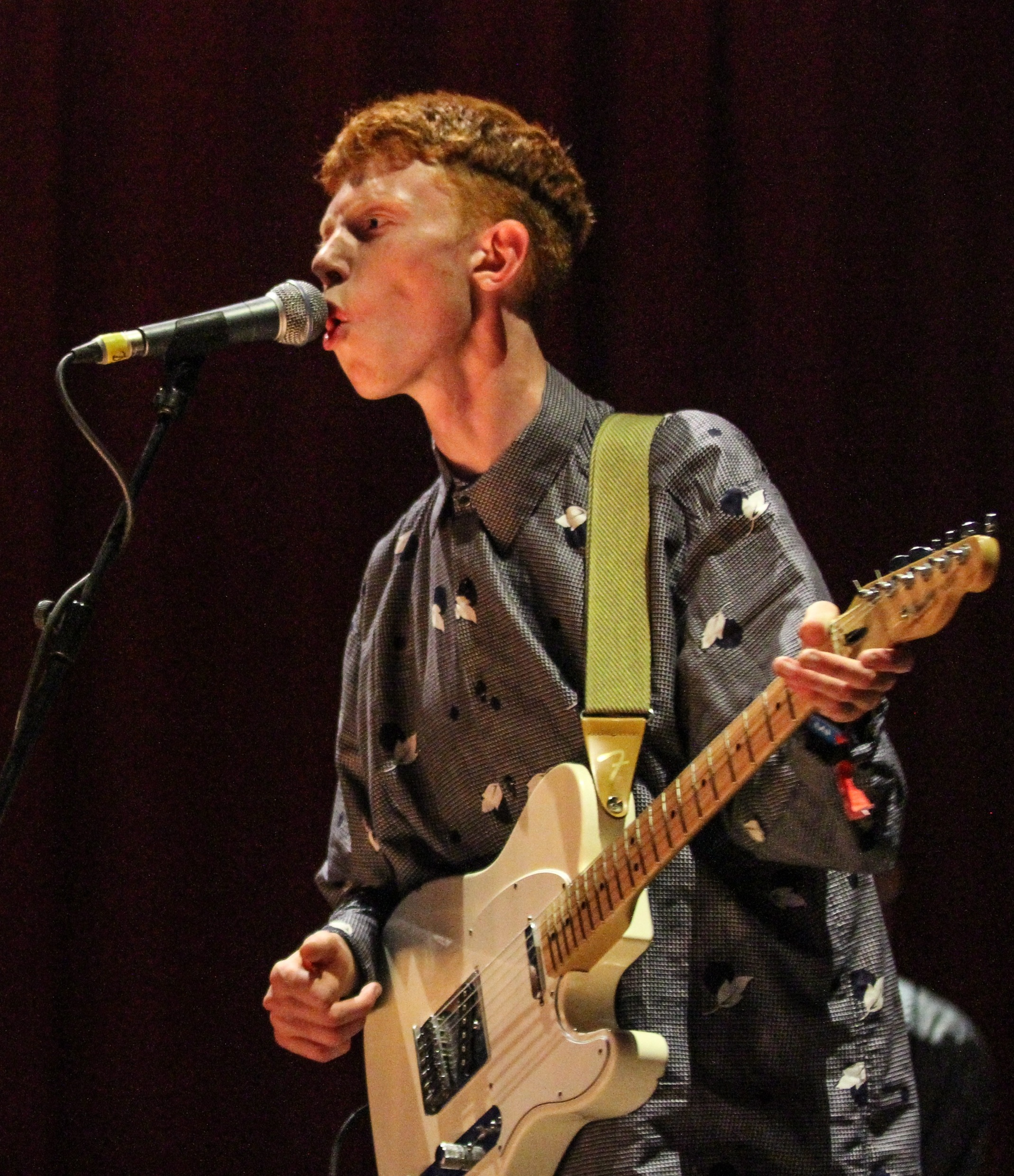 King Krule performing at Melt! Festival 2013